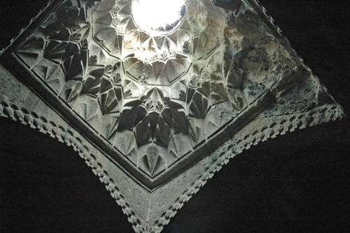 Geghard monastery. Avazan, Armenia